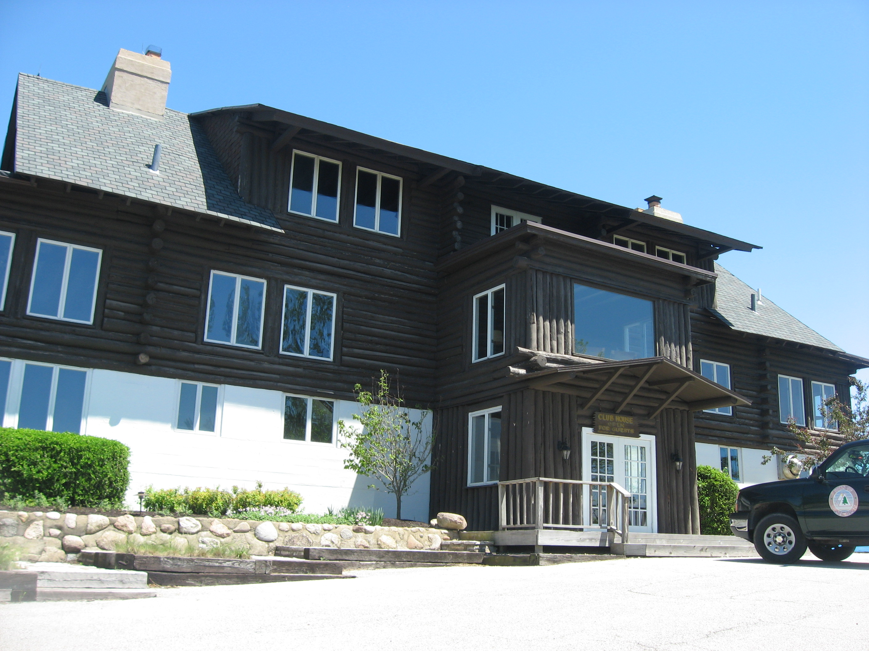 Front of the Dune Acres Clubhouse, located at the upper end of Clubhouse Drive in Dune Acres, Indiana, United States. Built in 1925, it is listed on the National Register of Historic Places. No better angle was realistically possible without leaving my car, due to the placement of trees and of the parking lot, and the presence of the town official discouraged me from exiting my vehicle, as Dune Acres has a reputation for causing problems for visitors who leave the streets.